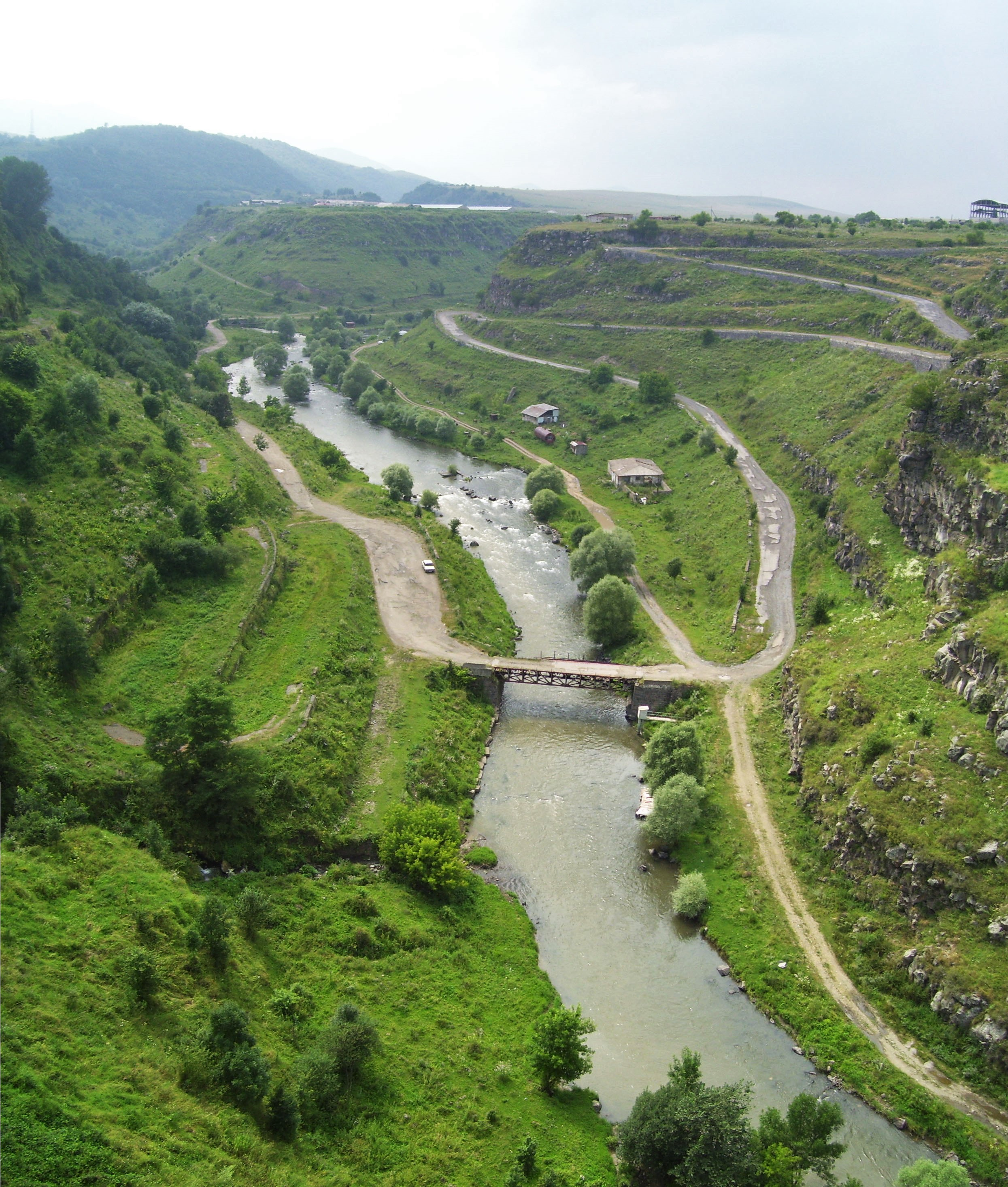 Dzoraget river canyon in Lori marz, Armenia